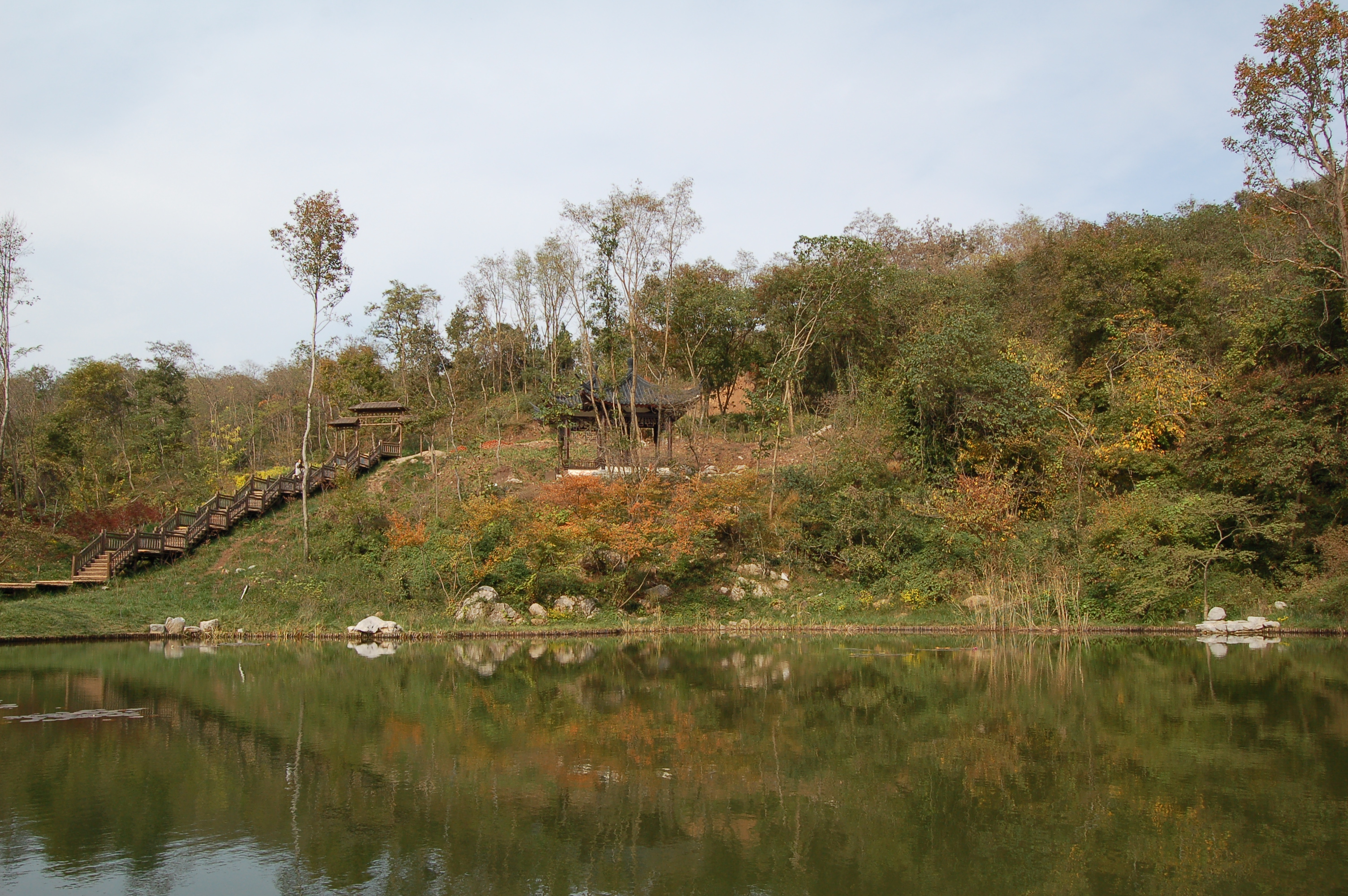 fenglin lake at XiXia mountain.